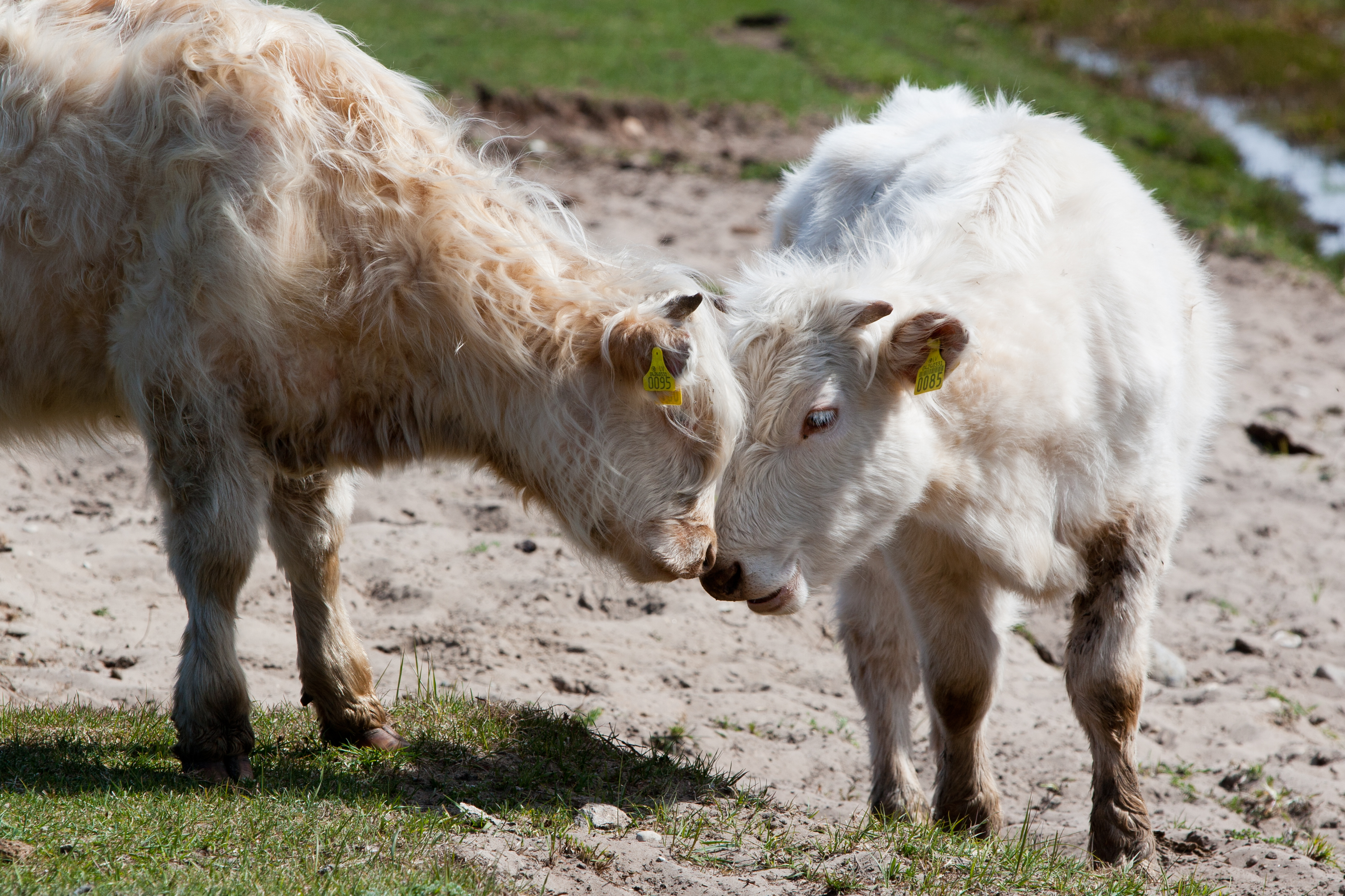 Two wild Highland calves in the floodplains of Engure lake. Engure lake nature park.